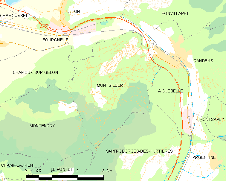 Map of French municipality